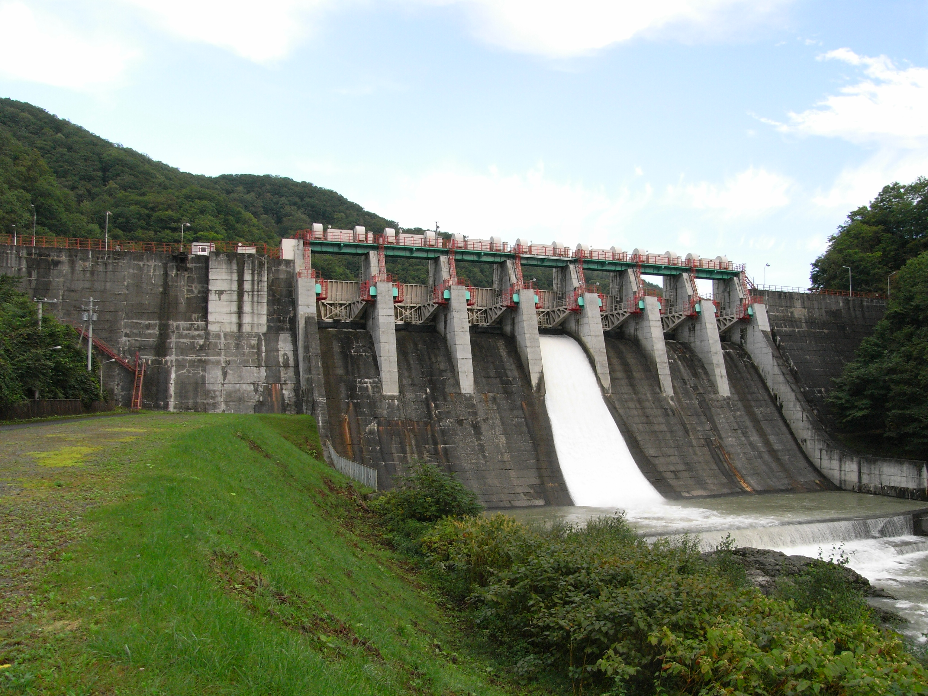 Iwamatsu Dam(Tokachi river/Hokkaido/Japan)